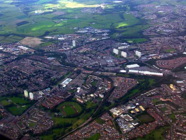 Coatbridge from the air